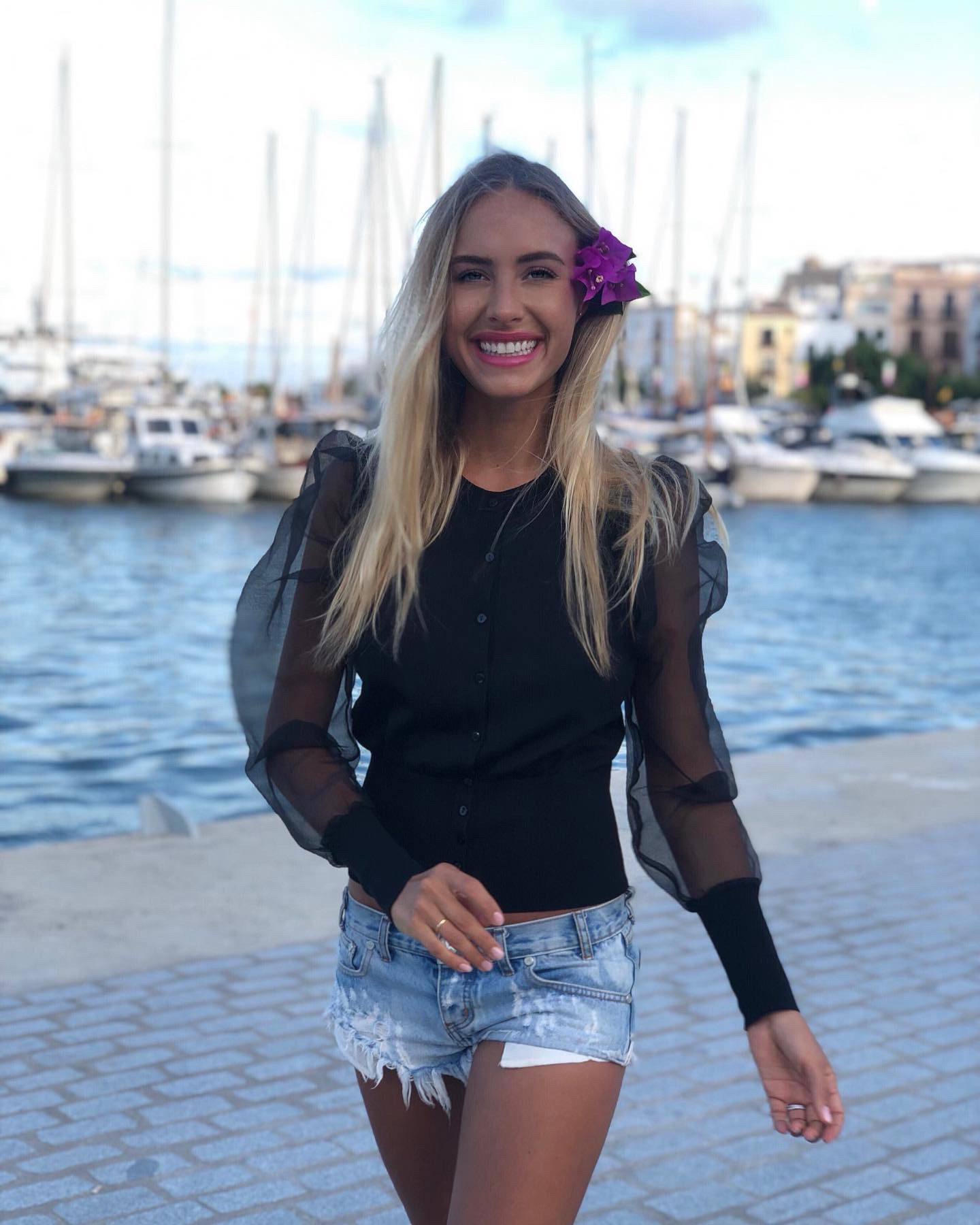 Alena Gerber Model Moderatorin